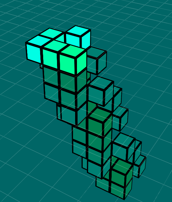 A glider in Conway's Game of Life viewed in 3d with the z-axis representing time.